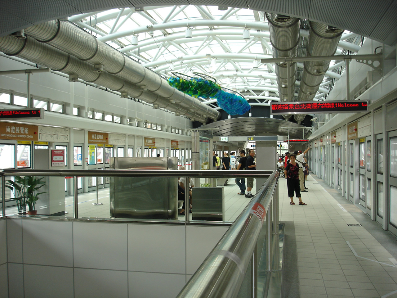 The platform of Brown Line, MRT Taipei Nangang Exhibition Center Station.